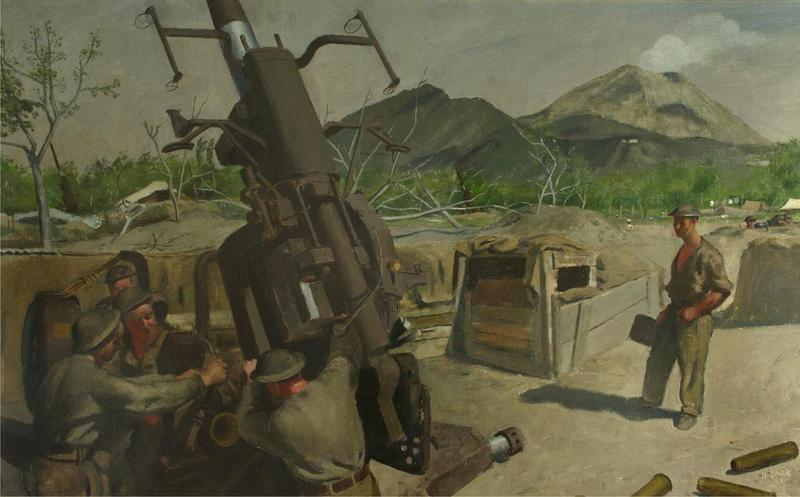 A 3.7 Anti-aircraft Gun of 393/72 Haa Regt, Ra, Cmf image: Four British soldiers man an anti-aircraft gun in almost full elevation, which is housed within a gun emplacement. Another British soldier looks on to the right, with a few empty shell cases strewn on the ground in the right foreground. Mountains are visible in the right background, including the peak of the volcano Mount Vesuvius, which has white smoke emerging from the crater.